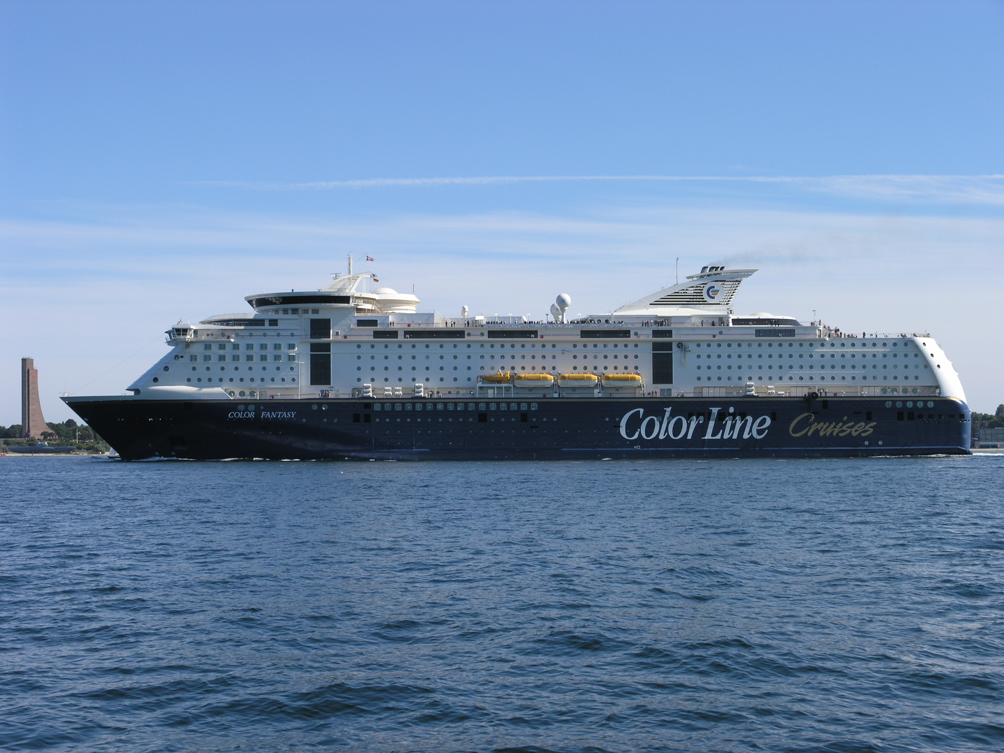 Color Fantasy